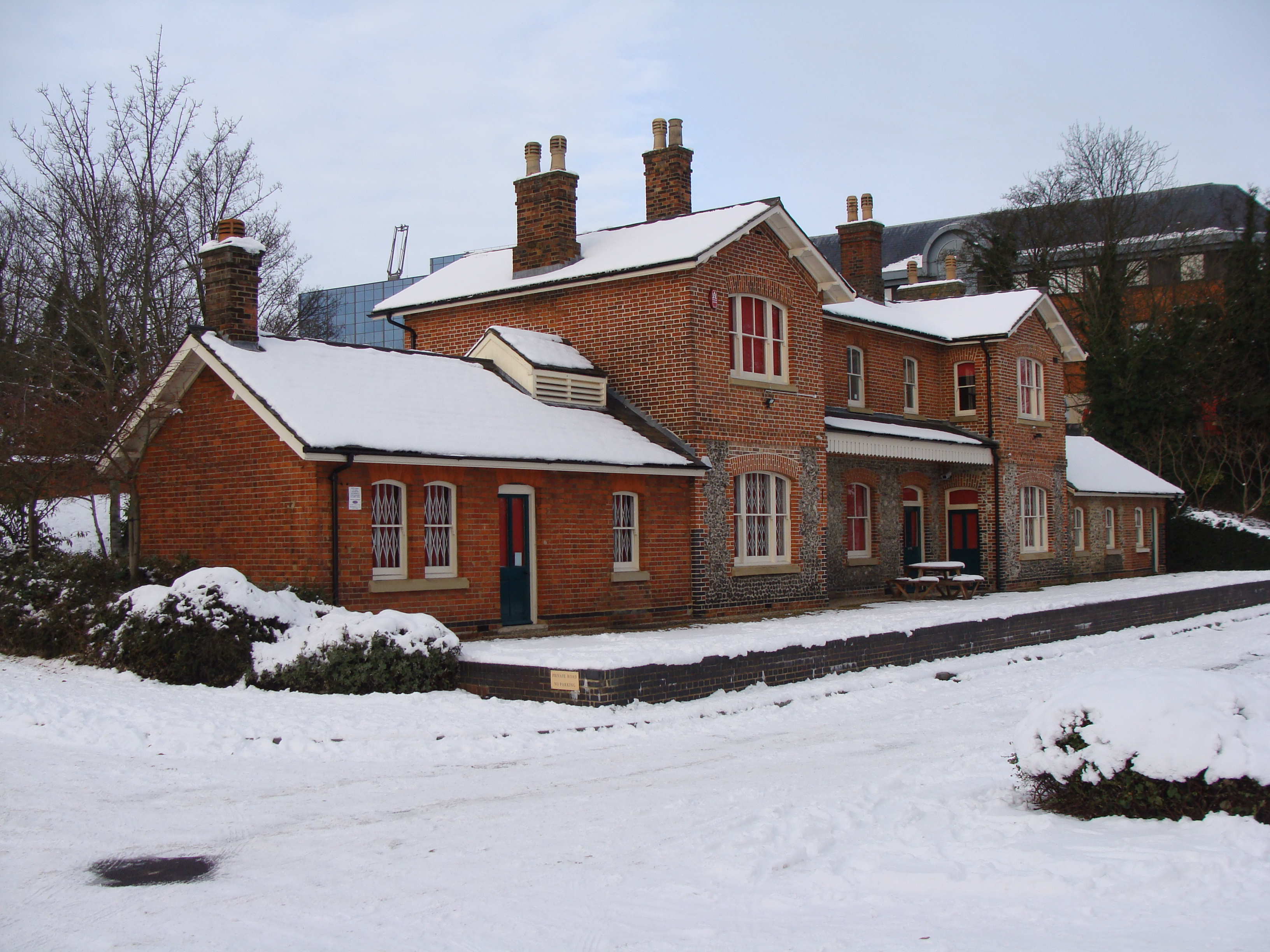 Old railway station in St Albans, Hertfordshire at the old line from St Albans Abbey to Hatfield.